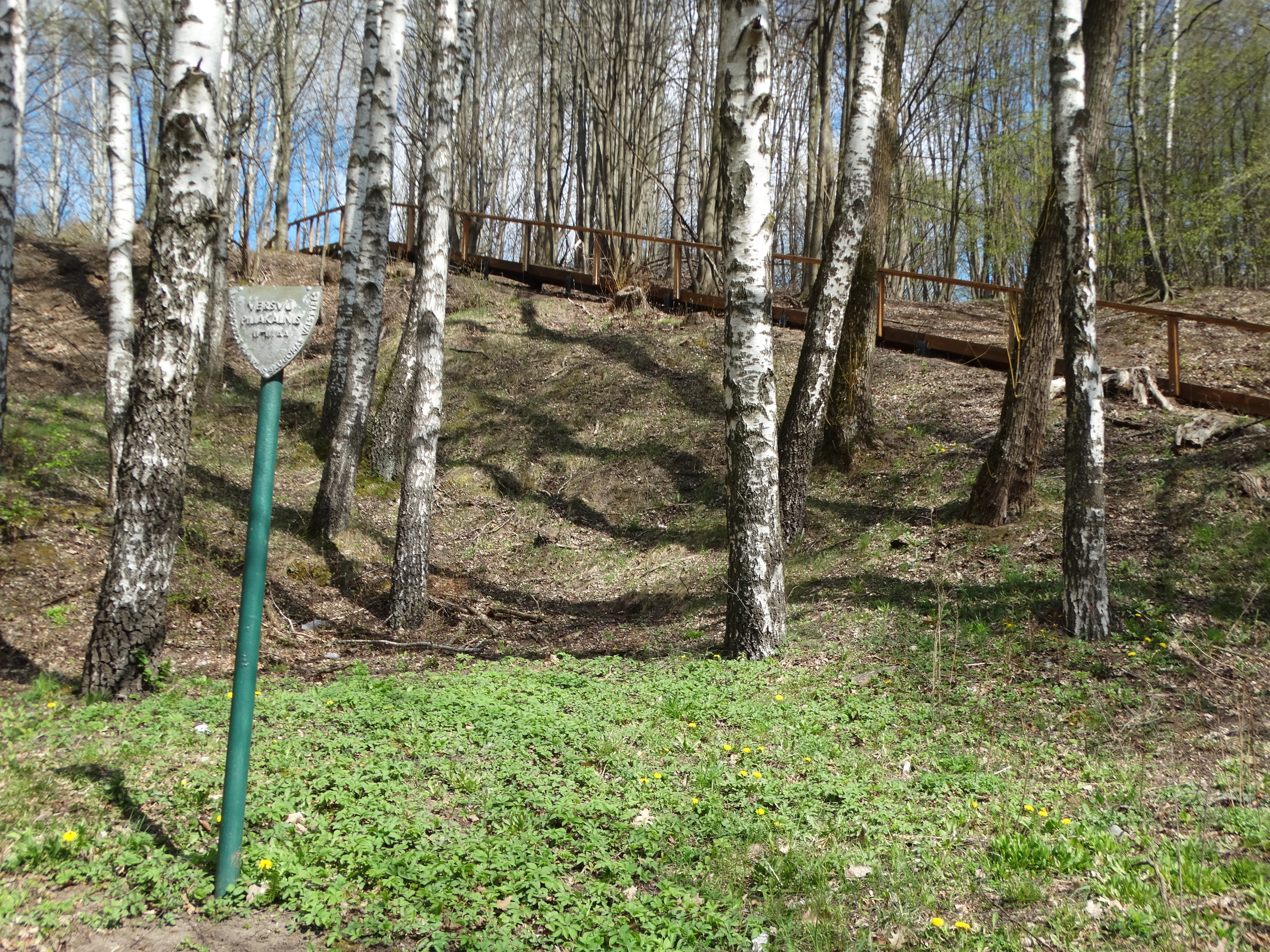 Veršvai hillfort, Kaunas, Lithuania